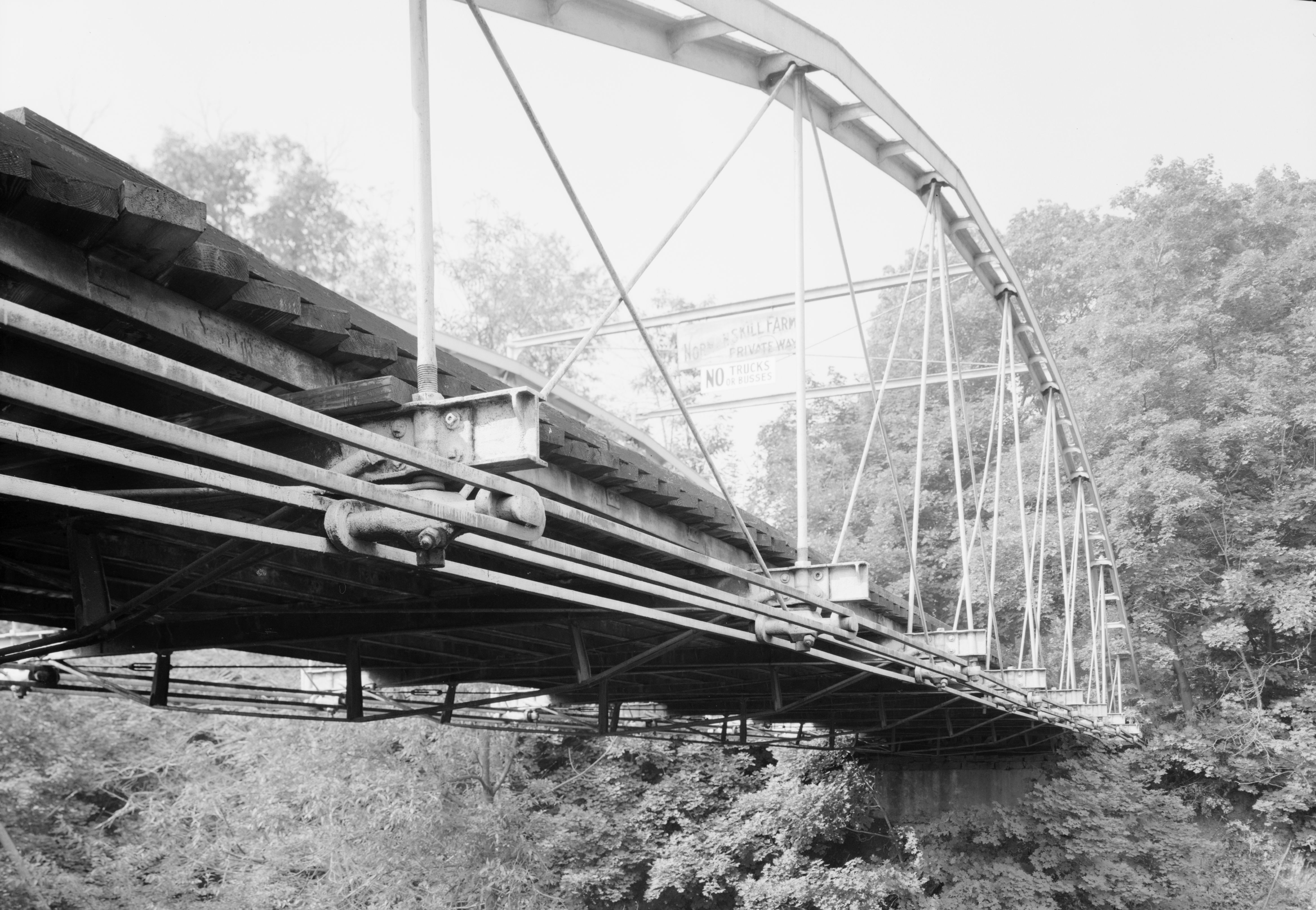 Whipple Cast & Wrought Iron Bowstring Truss Bridge, Normans Kill Vicinity, Albany, Albany County, NY